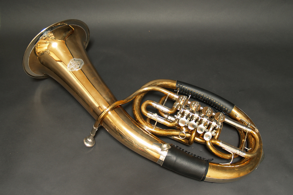 Bariton(Germany) in B Alexander 150